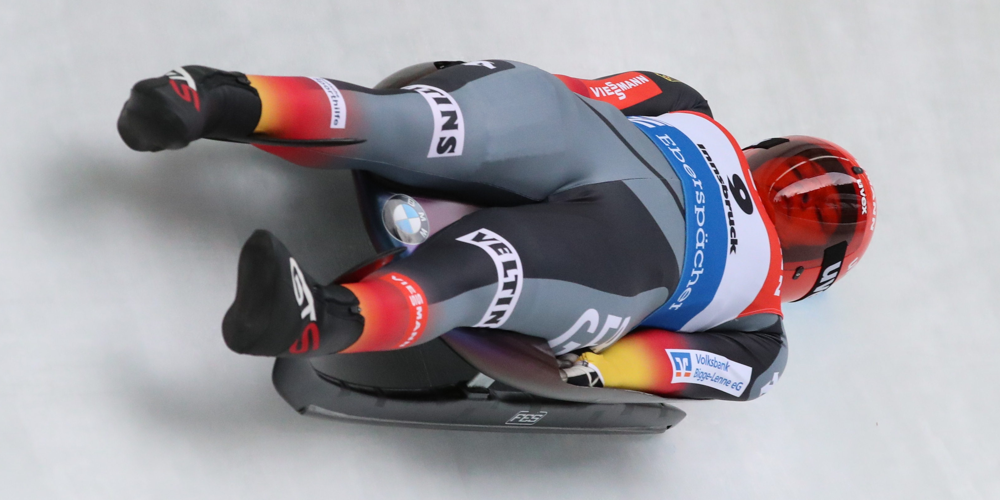 Women's World Cup race at the 2019/20 Luge World Cup in Innsbruck-Igls